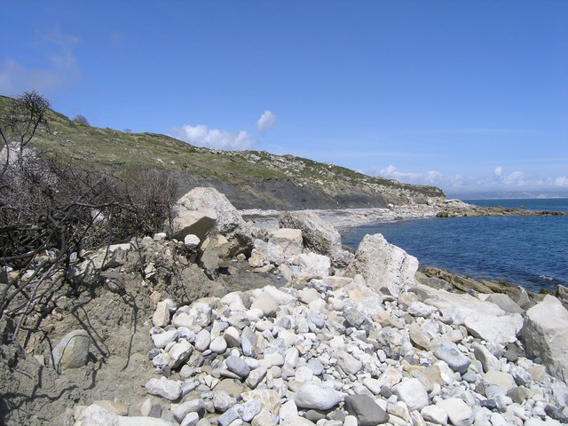 Looking back to see how far we've come. Still climbing over the rocks on the beach and getting nearer Durdle Pier.